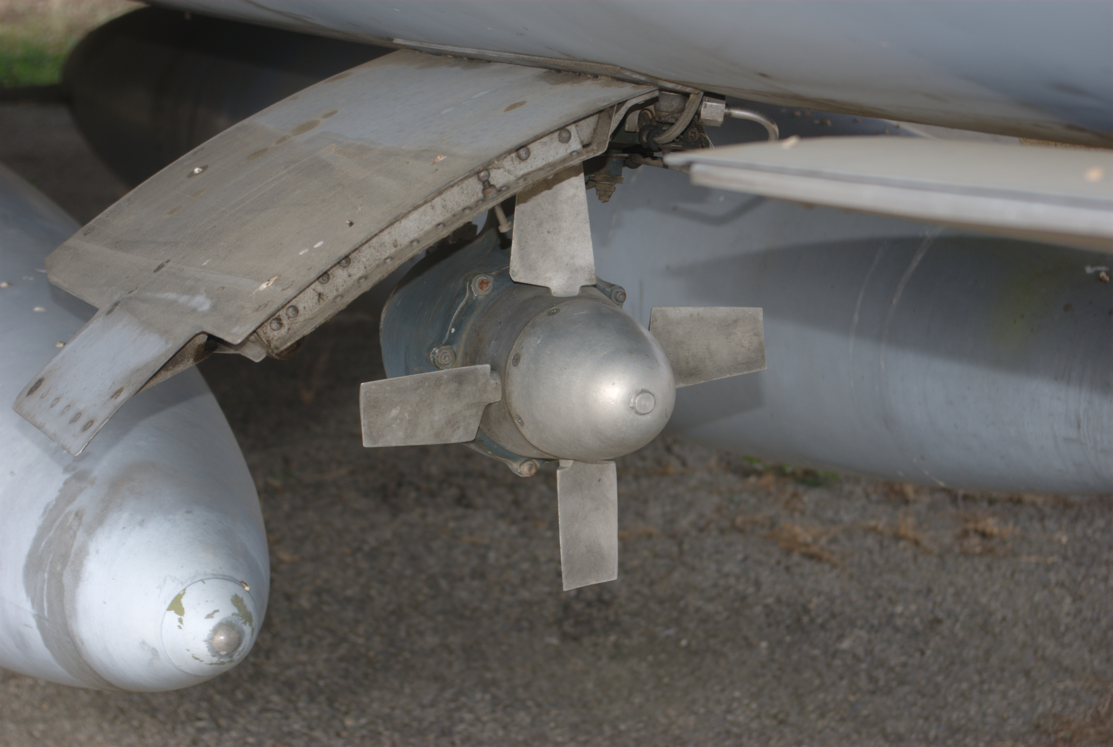 Ram air turbine of a Saab J35 Draken of the Austrian air force displayed in the musée des ailes anciennes (Toulouse, France).